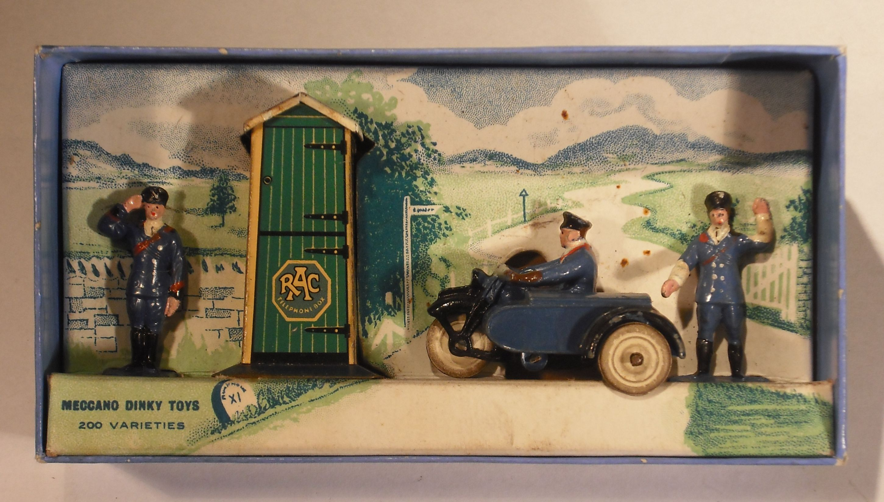 Dinky Toy' model "R.A.C. hut, motor cycle patrol and guides"